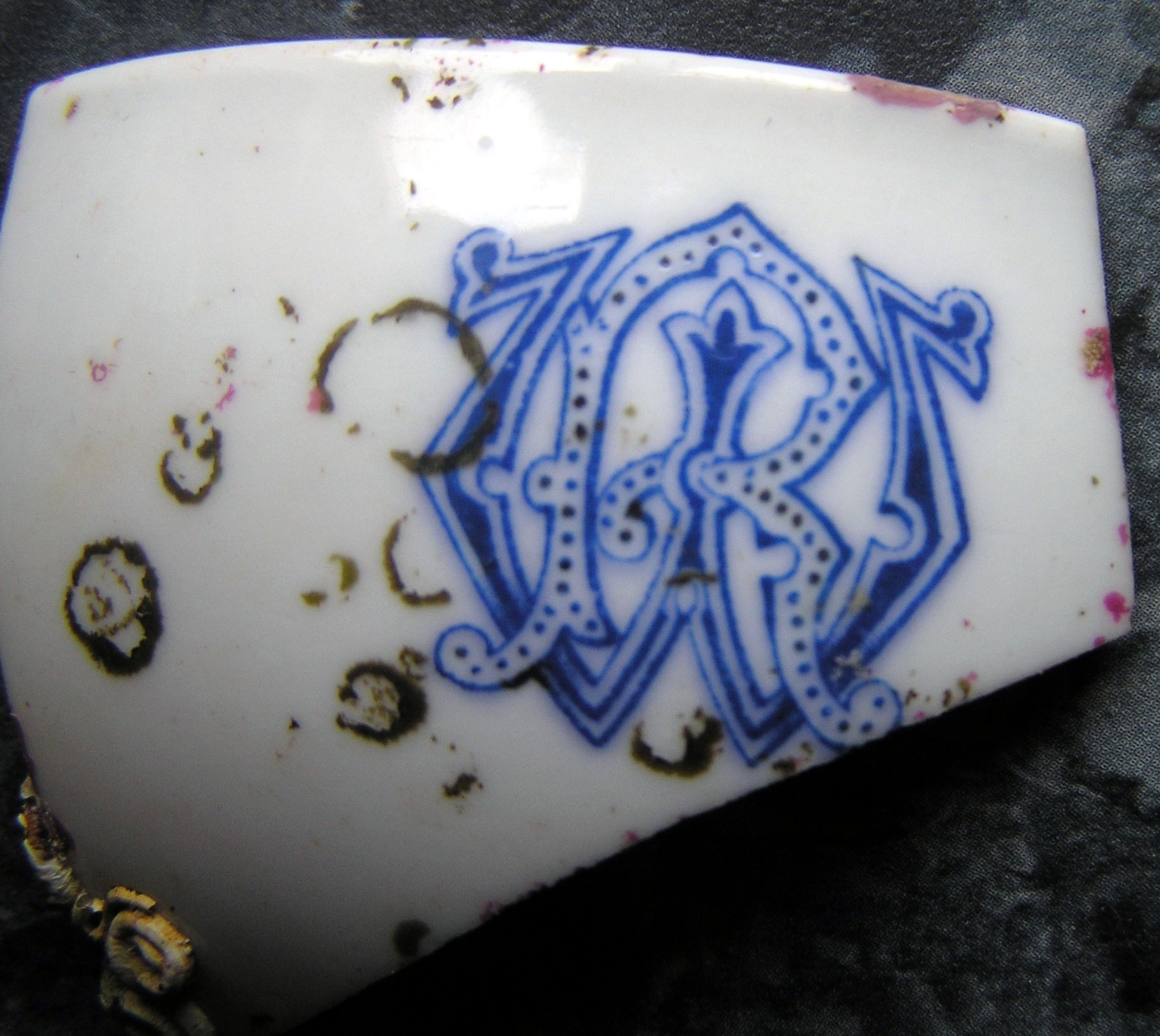 Broken Shard of WW1 era German Naval pottery, retreived from Scapa Flow, Orkney.